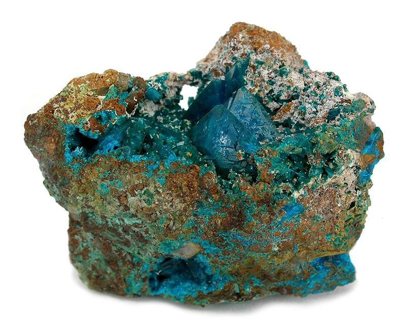 Liroconite, Strashimirite Locality: Wheal Gorland, St Day United Mines (Poldice Mines), Gwennap area, Camborne - Redruth - St Day District, Cornwall, England, UK (Locality at ) Size: 4.3 x 3.2 x 2.0 cm. This exquisite miniature features not one but THREE incredibly sharp crystals to 1 cm on edge, absolutely pristine and razor-honed on edges. It is thus, for the size and quality of the liroconite as well as their display aesthetics, a major specimen in every regard (quality, size, showiness). The minute white material richly coating the upper surface of the specimen is strashimirite (very rare!). This specimen was collected in the 1850s in all likelihood. Baroness Burdett-Coutts was a major collector active in the late 1800s, who traveled extensively and acquired many rarities and locality pieces. Ex. Albert Chapman and Angela Georgina Burdett-Coutts Collections.